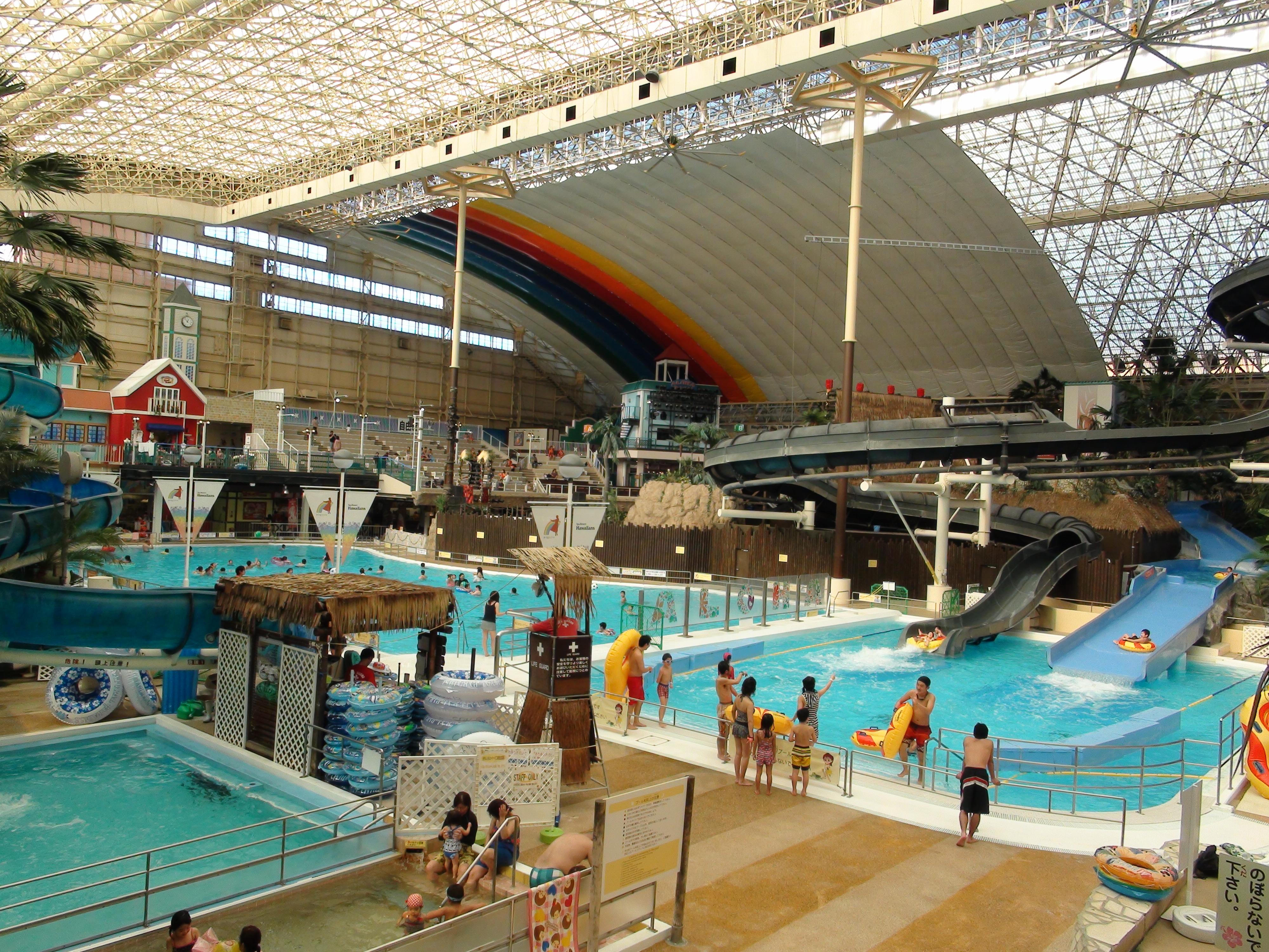 Spa Resort Hawaiians Water Park